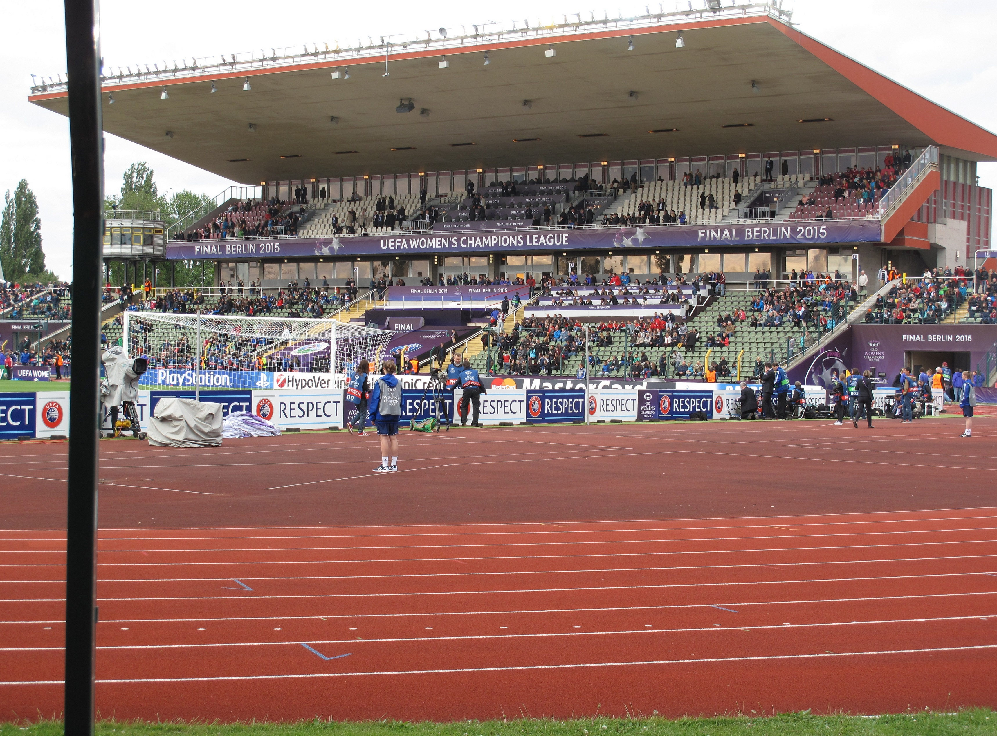 2015 UEFA Women's Champions League Final at Friedrich-Ludwig-Jahn-Sportpark in Berlin on 14 May 2015. 1. FFC Frankfurt won the match against Paris Saint-Germain 2–1.